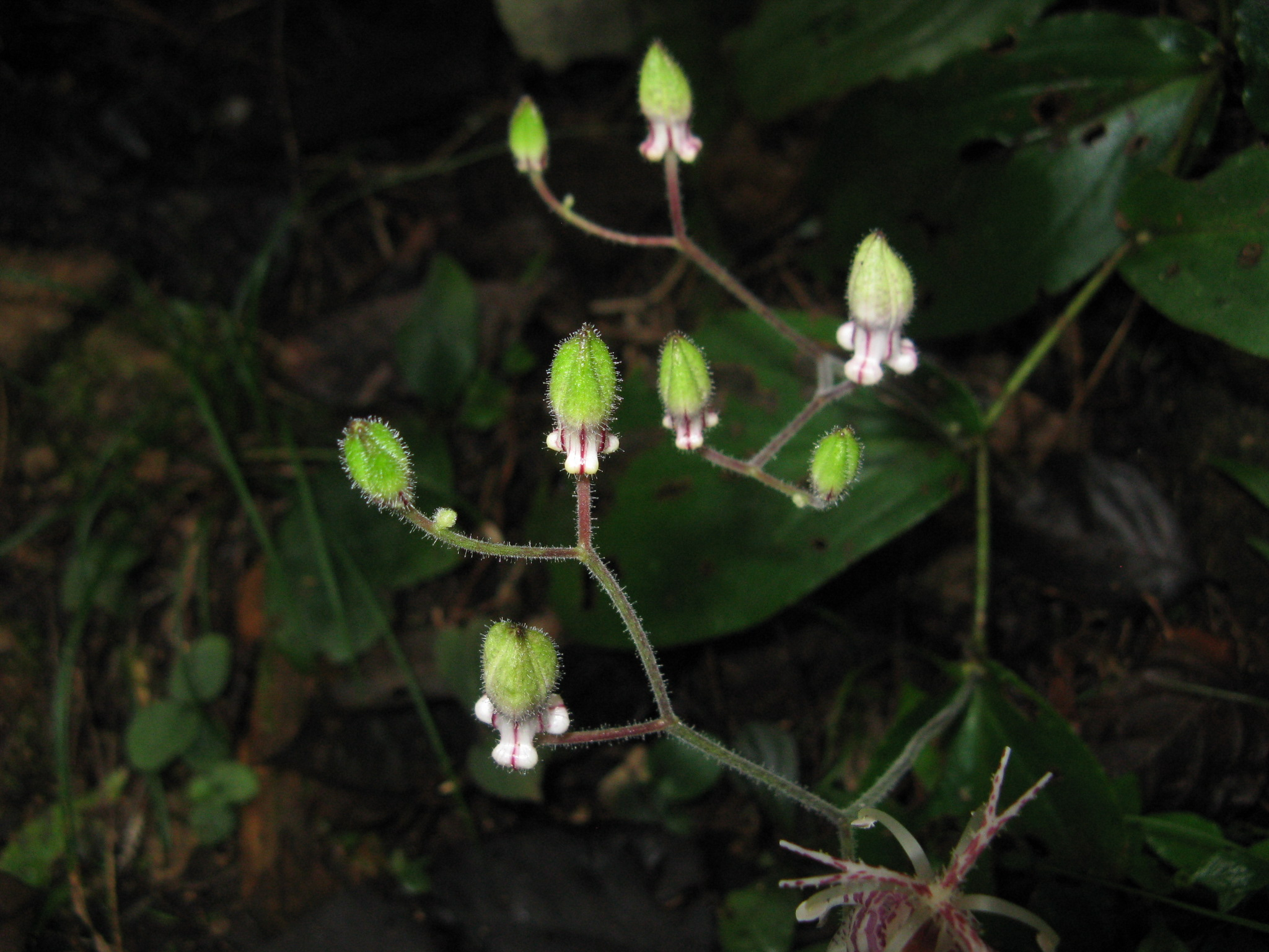 Tricyrtis macropoda in Gutianshan, Kaihua County, Zhejiang Province, China.